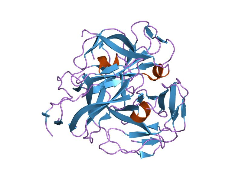 Cartoon representation of the molecular structure of protein registered with 1f7o code.